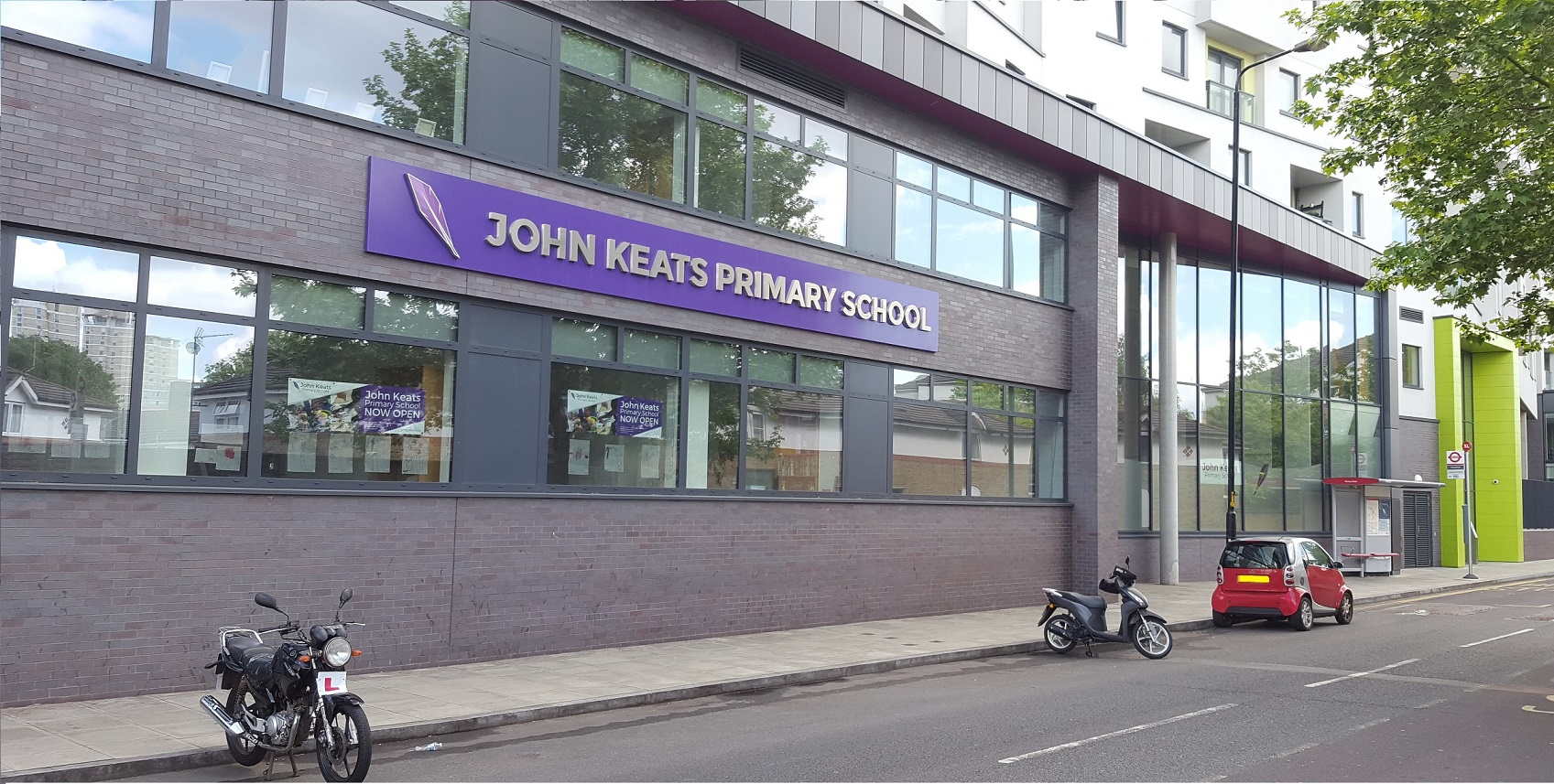 John Keats Primary School is located on Rotherhithe New Road in Southwark, London. The school started in 2018 and is part of the Communitas Education Trust.